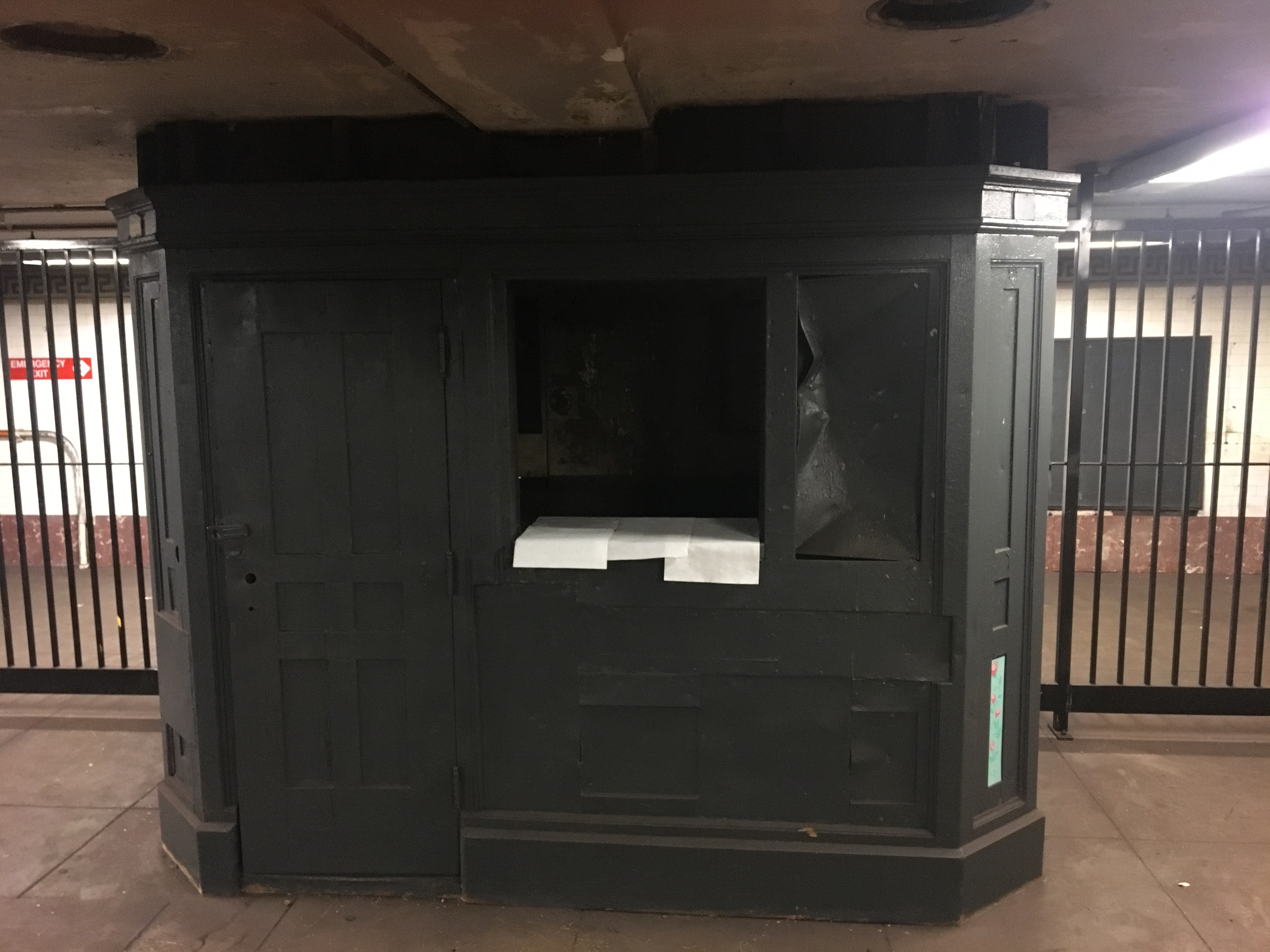 Booth used by BMT NYC Subway at Bowery station circa 1920s to collect fares. Wooden structure.